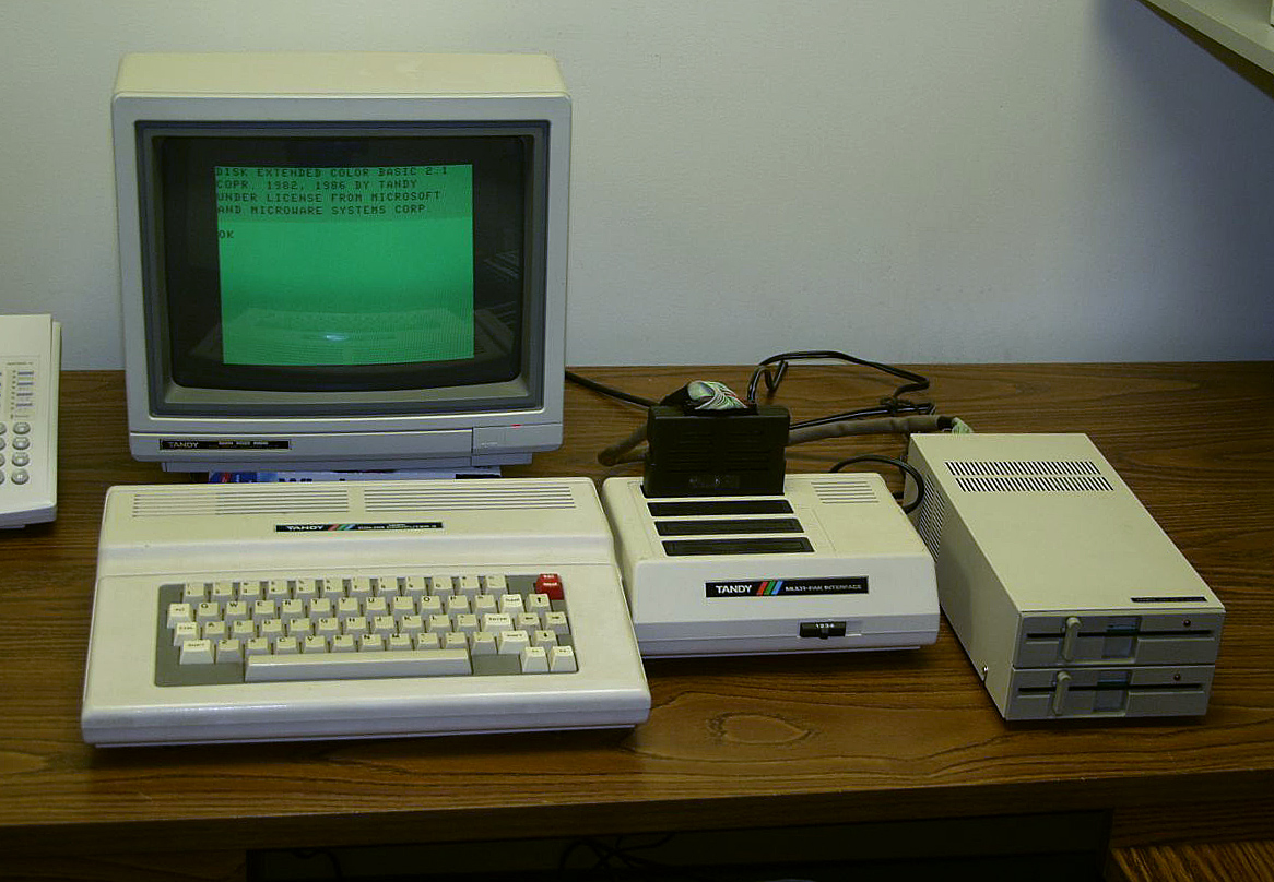 Typical CoCo 3 system, featuring the base unit, a Tandy CM-8 analog RGB monitor, the Multi-Pak interface with a disk controller installed in slot 4, and two half height 40 track double sided disk drives installed in a Tandy FD-502 floppy drive case.